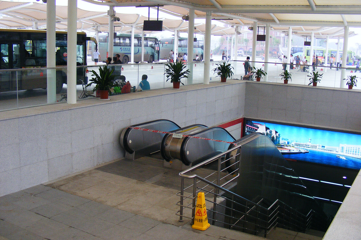 TJ WEST RAILWAY STATION (LINE 1)